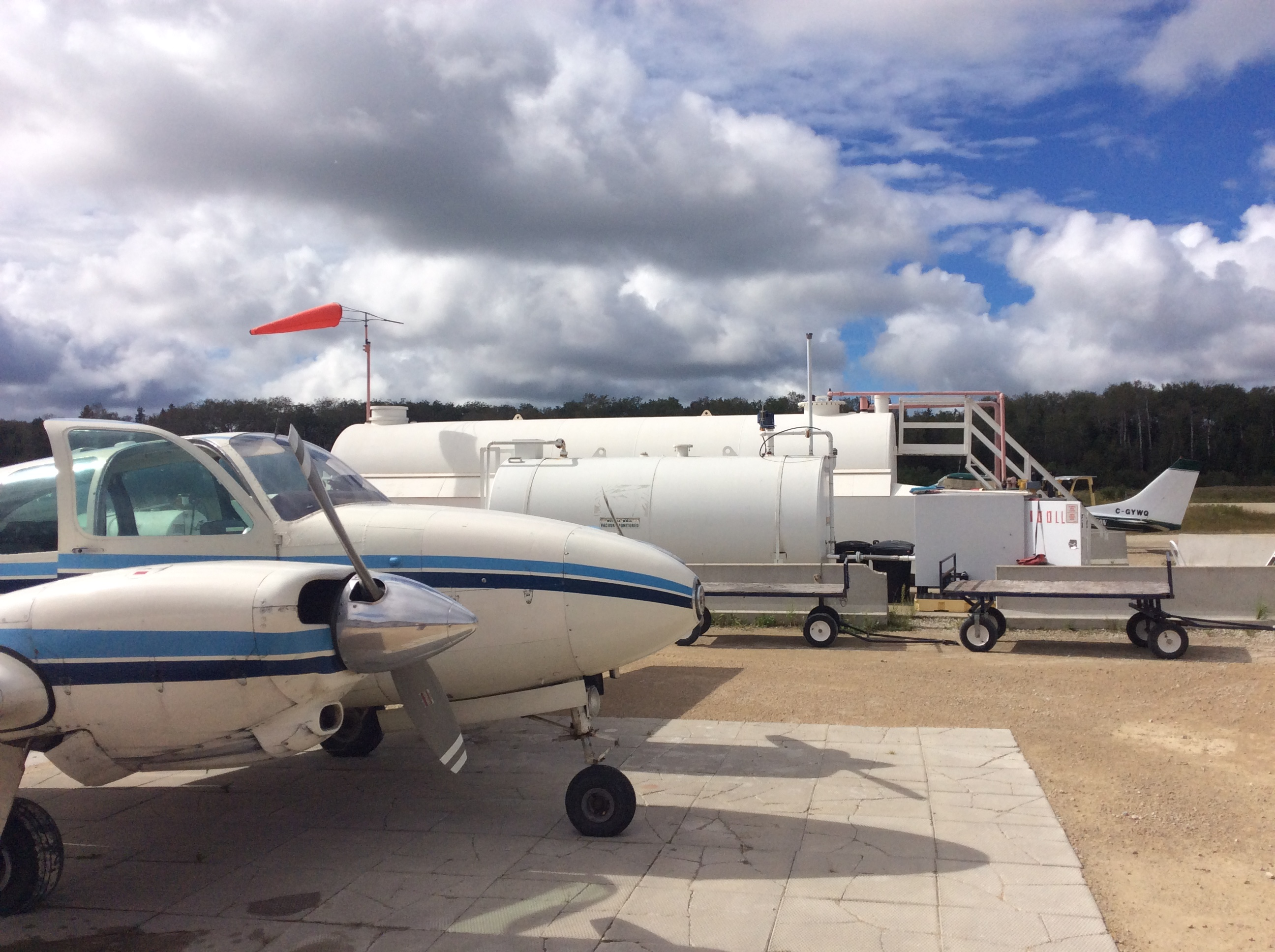 The concrete ramp and fuel tanks along with Lakeside Aviation charter aircraft at the Pine Dock Airport